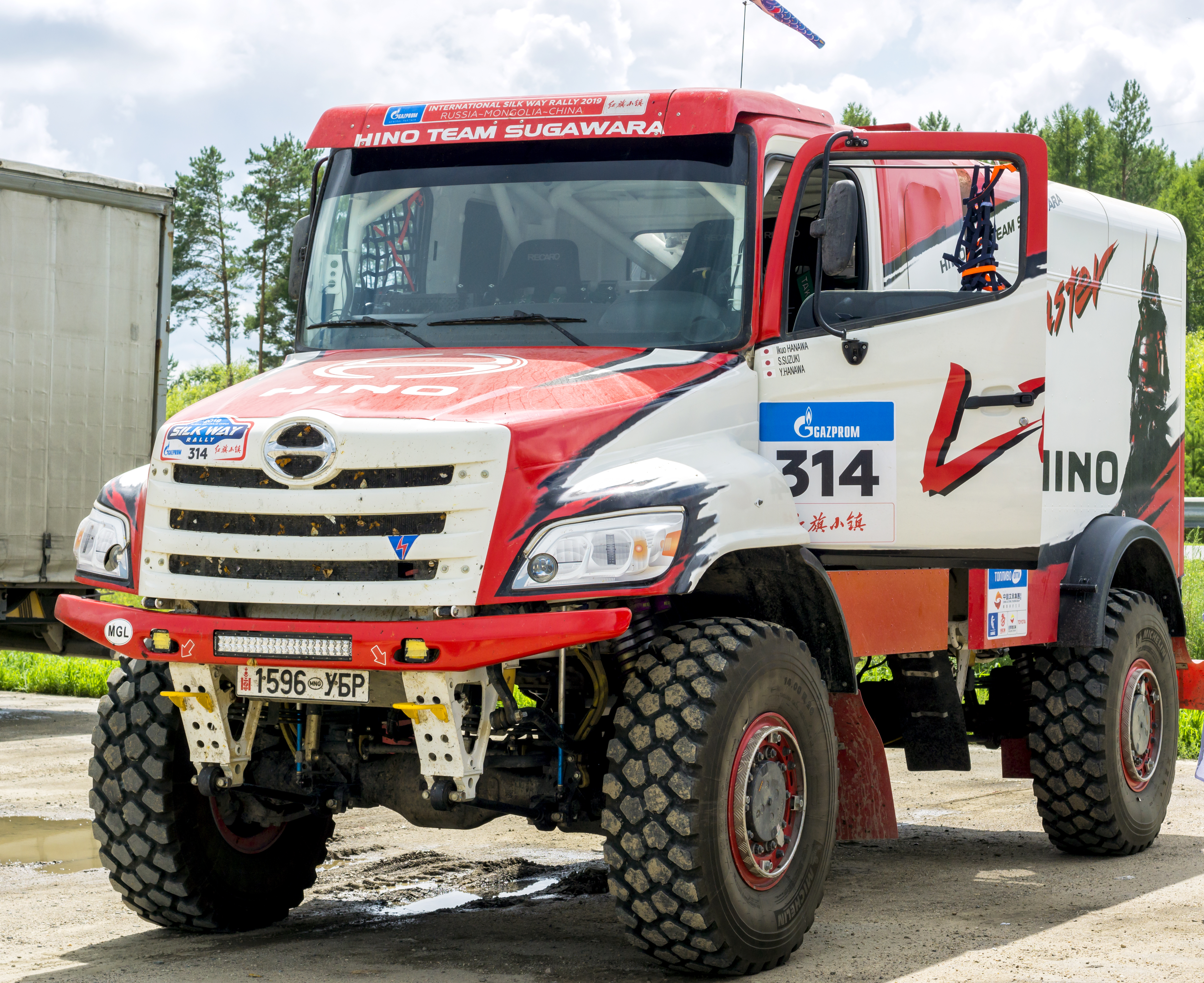 HINO 600 racing truck